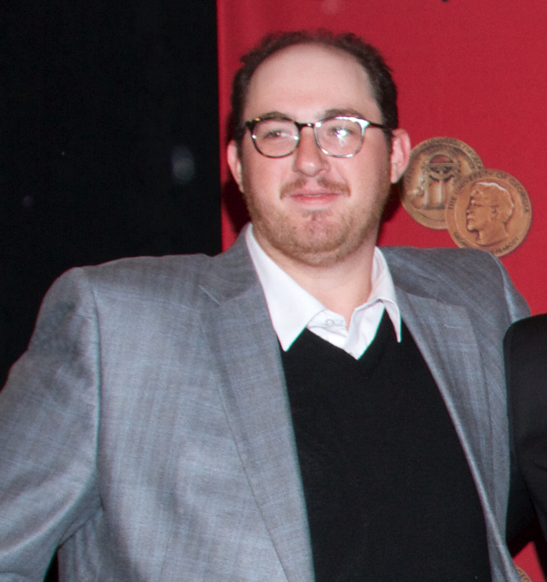 Peter Atencio at the 73rd Annual Peabody Awards.